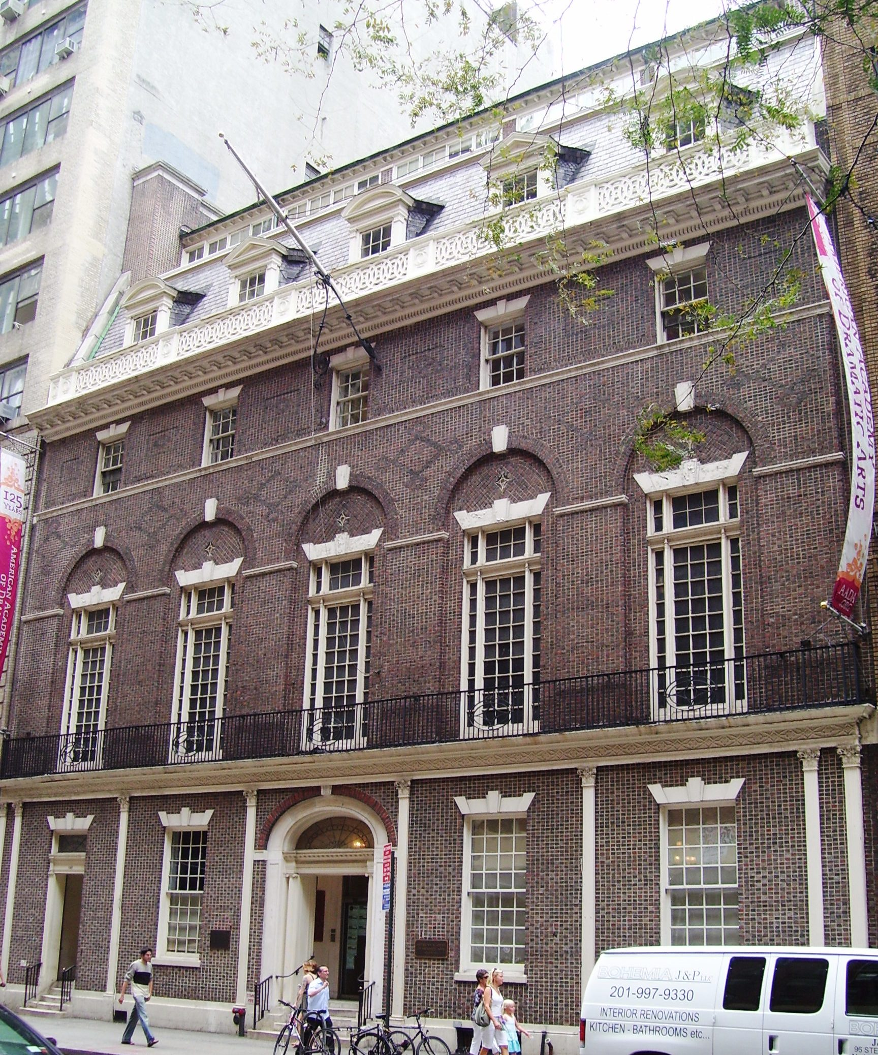 The American Academy of Dramatic Arts Building at 120 Madison Avenue between 30th and 31st Streets was formerly the clubhouse of the Colony Club. It was built between 1904 and 1908 and was designed by Stanford White of McKim, Mead and White in Georgian/Federal Revival style.